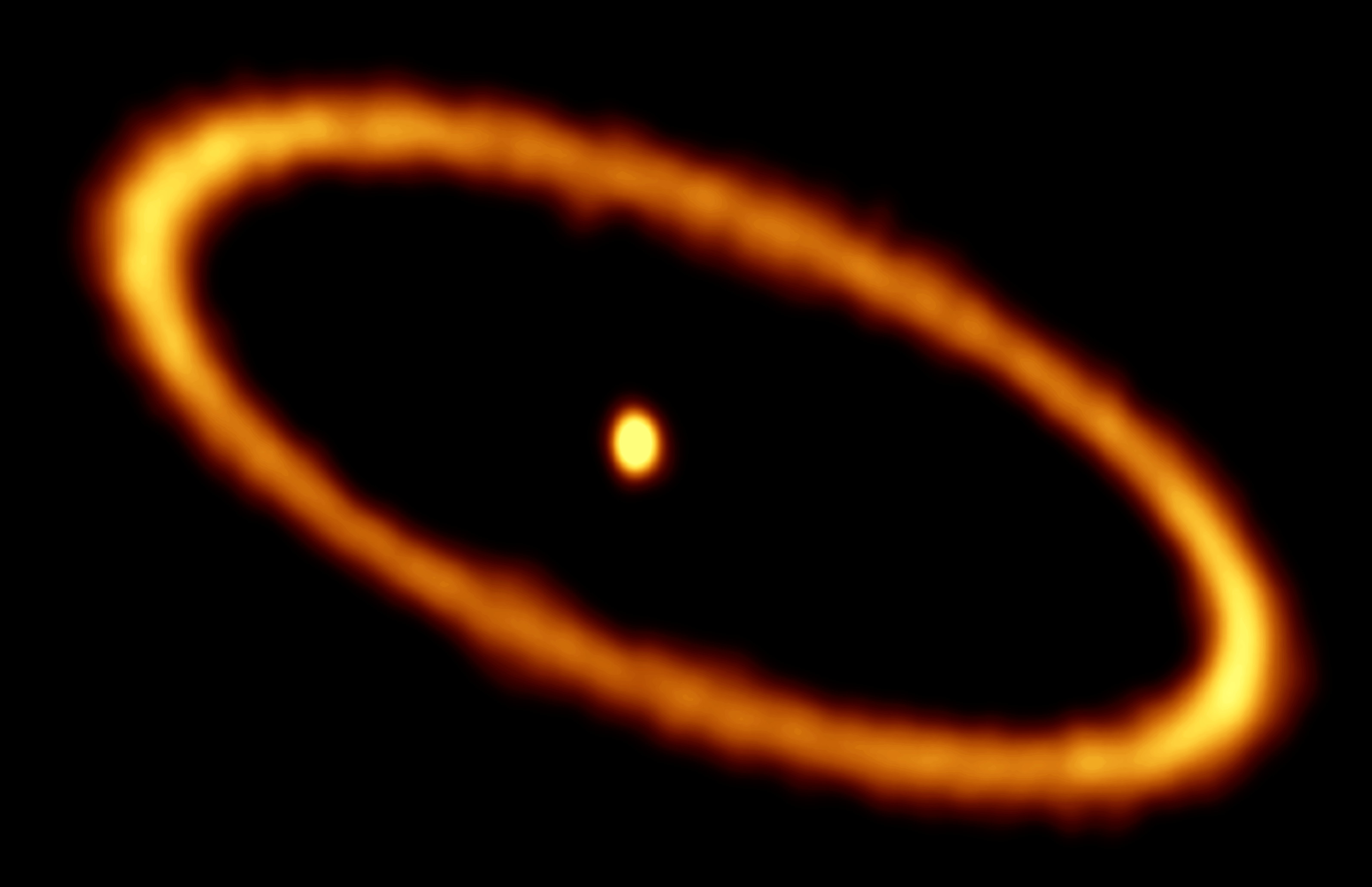 Fomalhaut is one of the brightest stars in the sky. At roughly 25 light-years away the star lies especially close to us, and can be seen shining brightly in the constellation of Piscis Austrinus (The Southern Fish). This image from the Atacama Large Millimeter/submillimeter Array (ALMA) shows Fomalhaut (centre) encircled by a ring of dusty debris — this is the first time this scene has been captured at such high resolution and sensitivity at millimetre wavelengths. Fomalhaut’s disc comprises a mix of cosmic dust and gas from comets in the Fomalhaut system (exocomets), released as the exocomets graze past and smash into one another. This turbulent environment resembles an early period in our own Solar System known as the Late Heavy Bombardment, which occurred approximately four billions years ago. This era saw huge numbers of rocky objects hurtle into the inner Solar System and collide with the young terrestrial planets, including Earth, where they formed a myriad of impact craters — many of which remain visible today on the surfaces of planets such as Mercury and Mars. Fomalhaut is known to be surrounded by several discs of debris — the one visible in this ALMA image is the outermost one. The ring is approximately 20 billion kilometers from the central star and about 2 billion kilometers wide. Such a relative narrow, eccentric disc can only be produced by the gravitational influence of planets in the system, like Jupiter’s gravitational influence on our asteroid belt. In 2008 the NASA/ESA Hubble Space Telescope discovered the famous exoplanet Fomalhaut b orbiting within this belt, but the planet is not visible in this ALMA image.